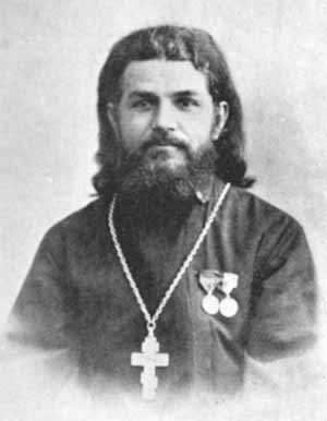 Guma Vasiliy Ivanovich